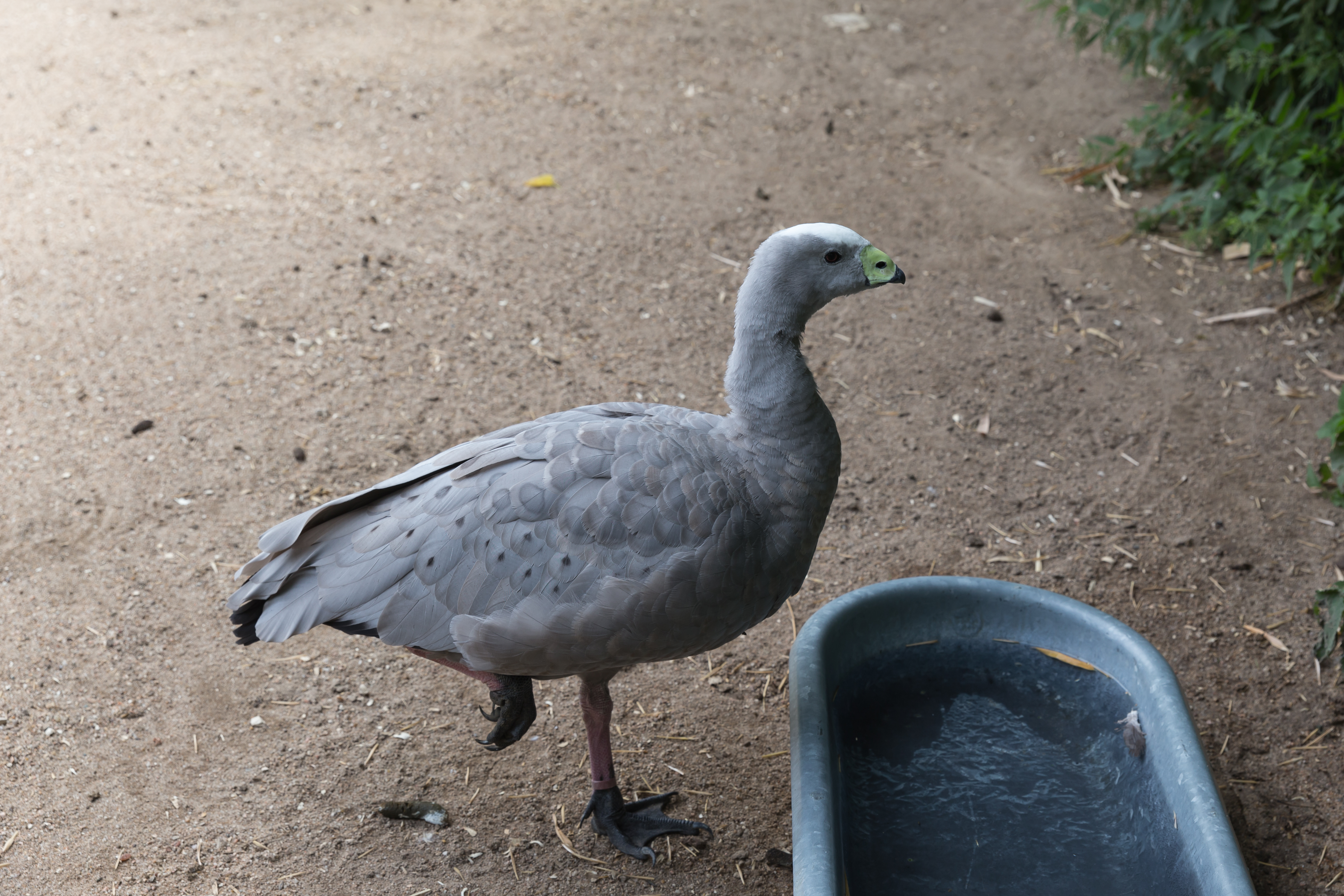 Cereopsis novaehollandiae (Cape Barren Goose) in the ZooParc de Beauval in Saint-Aignan-sur-Cher, France.